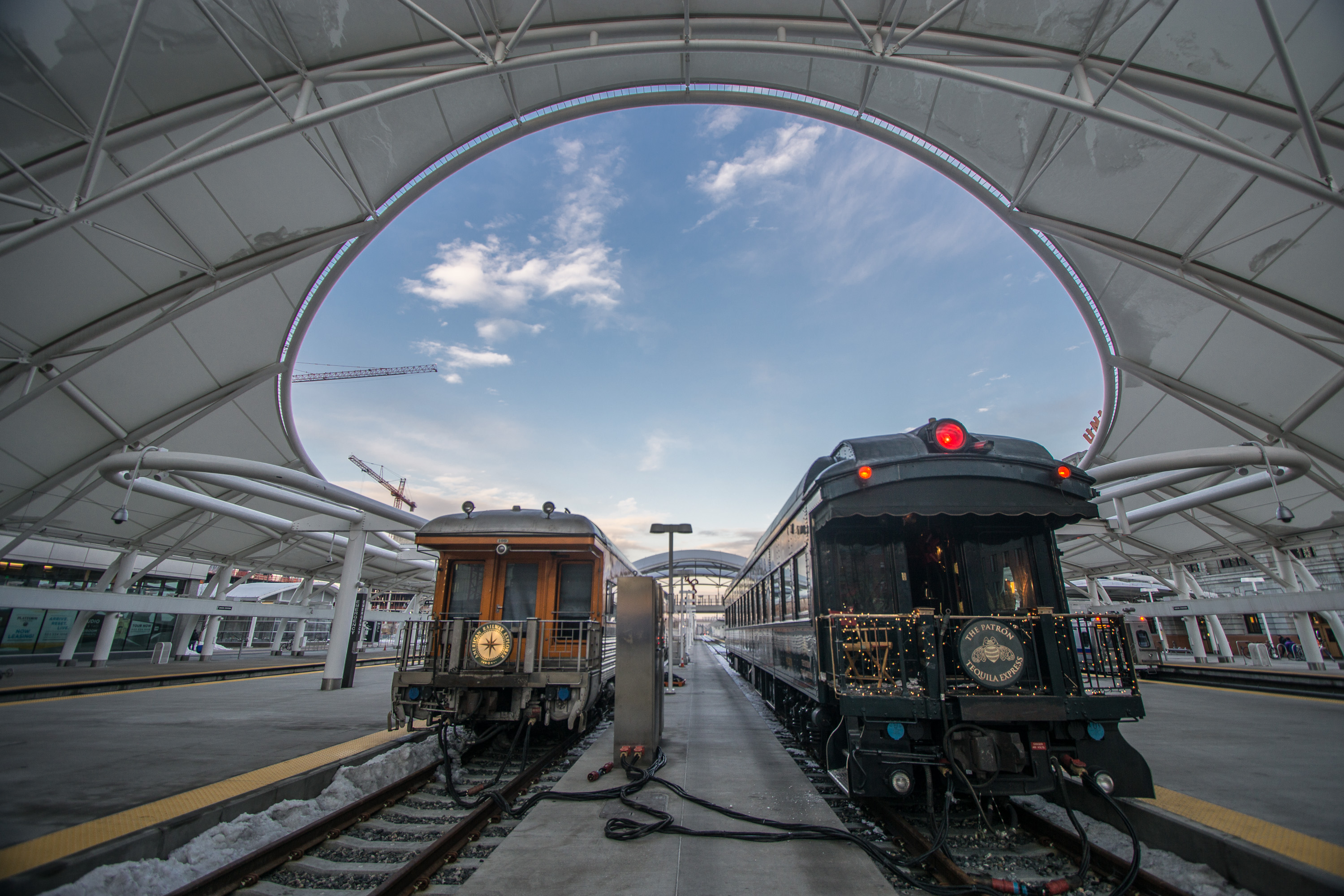 Denver Union Station's open-air train hall. Denver, Colorado, December 2015.